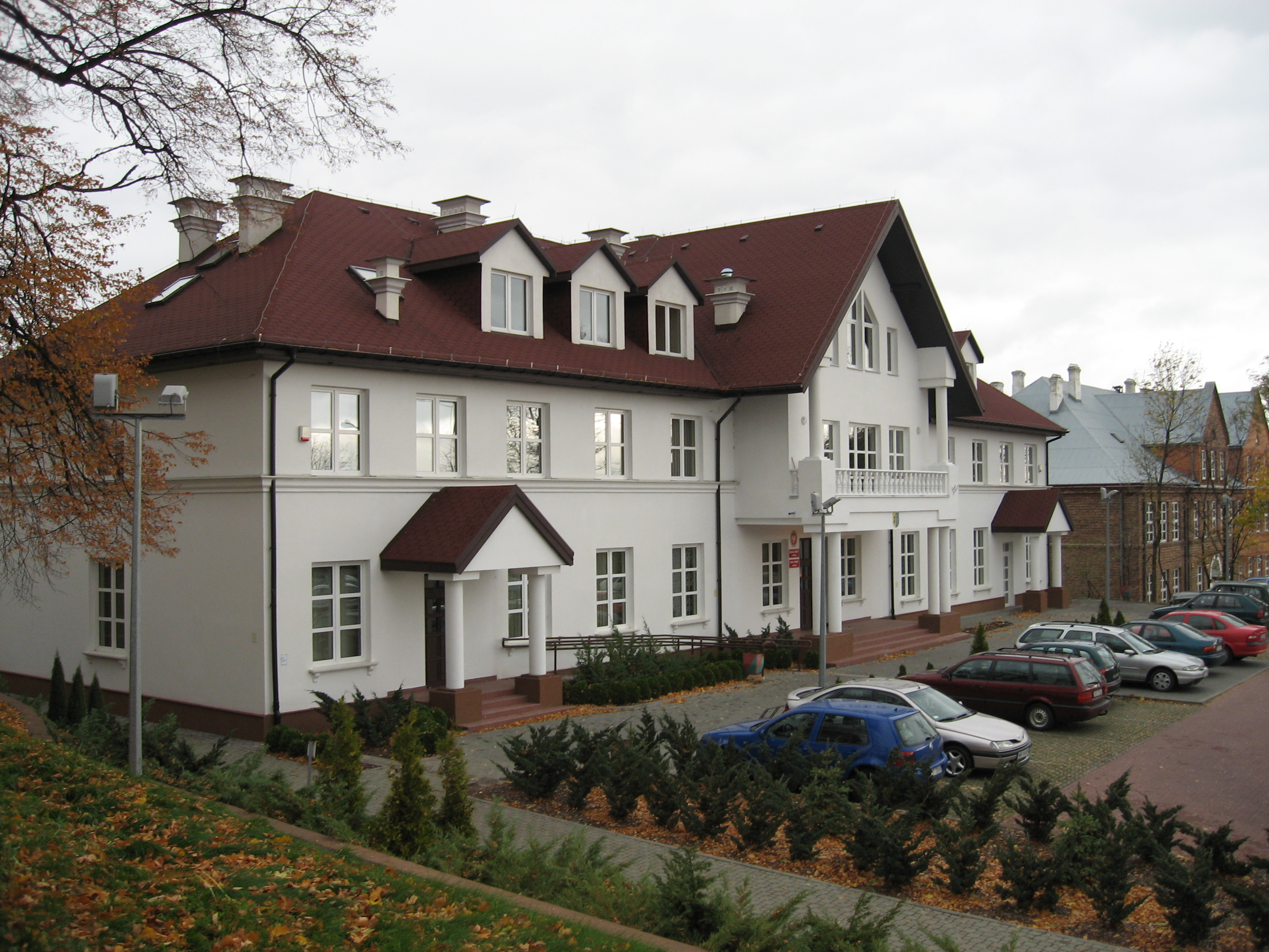 Gmina office in Mirzec, Poland